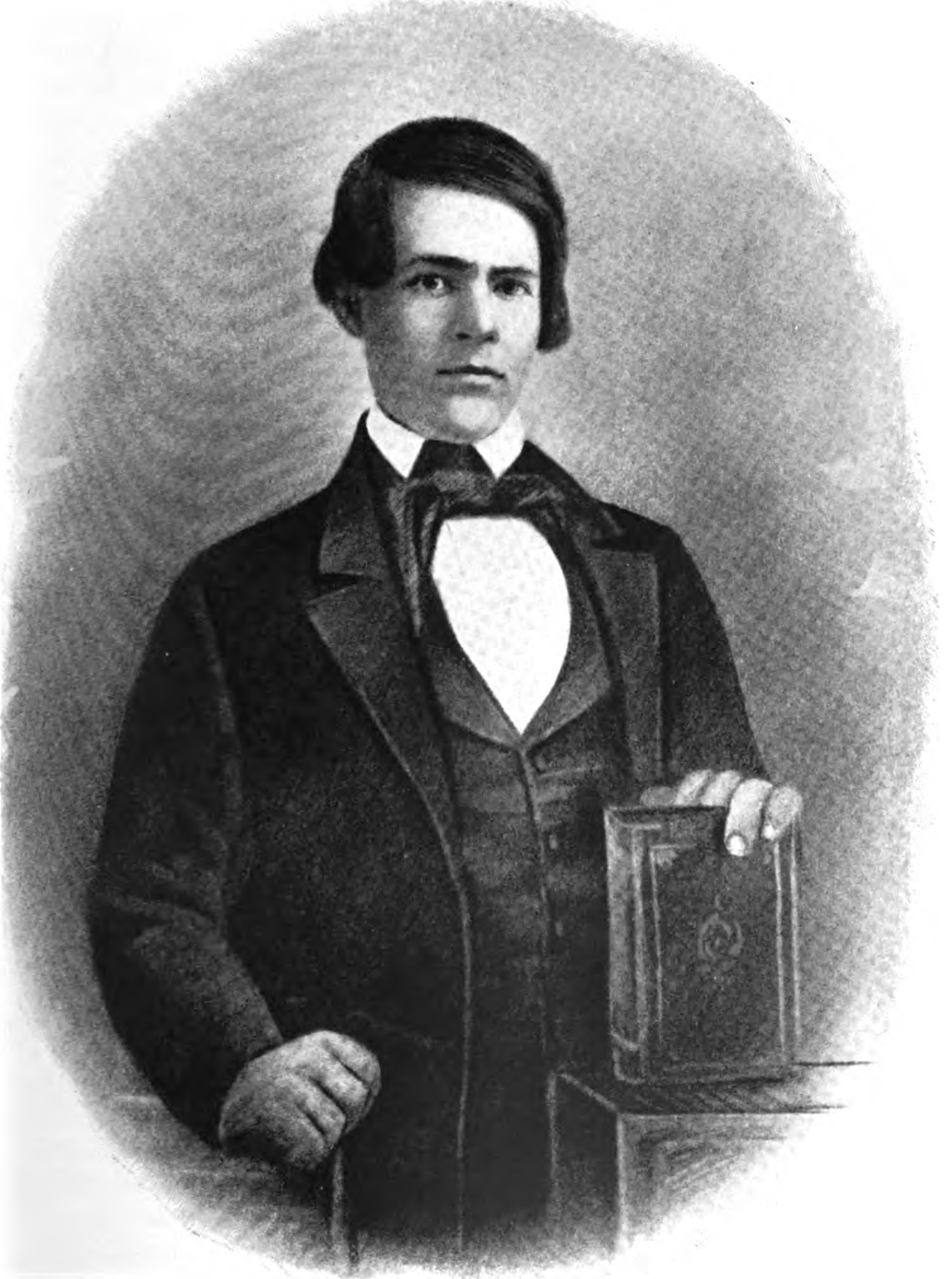 Photograph of John Sherman at age 19. Published in his memoirs in 1895.